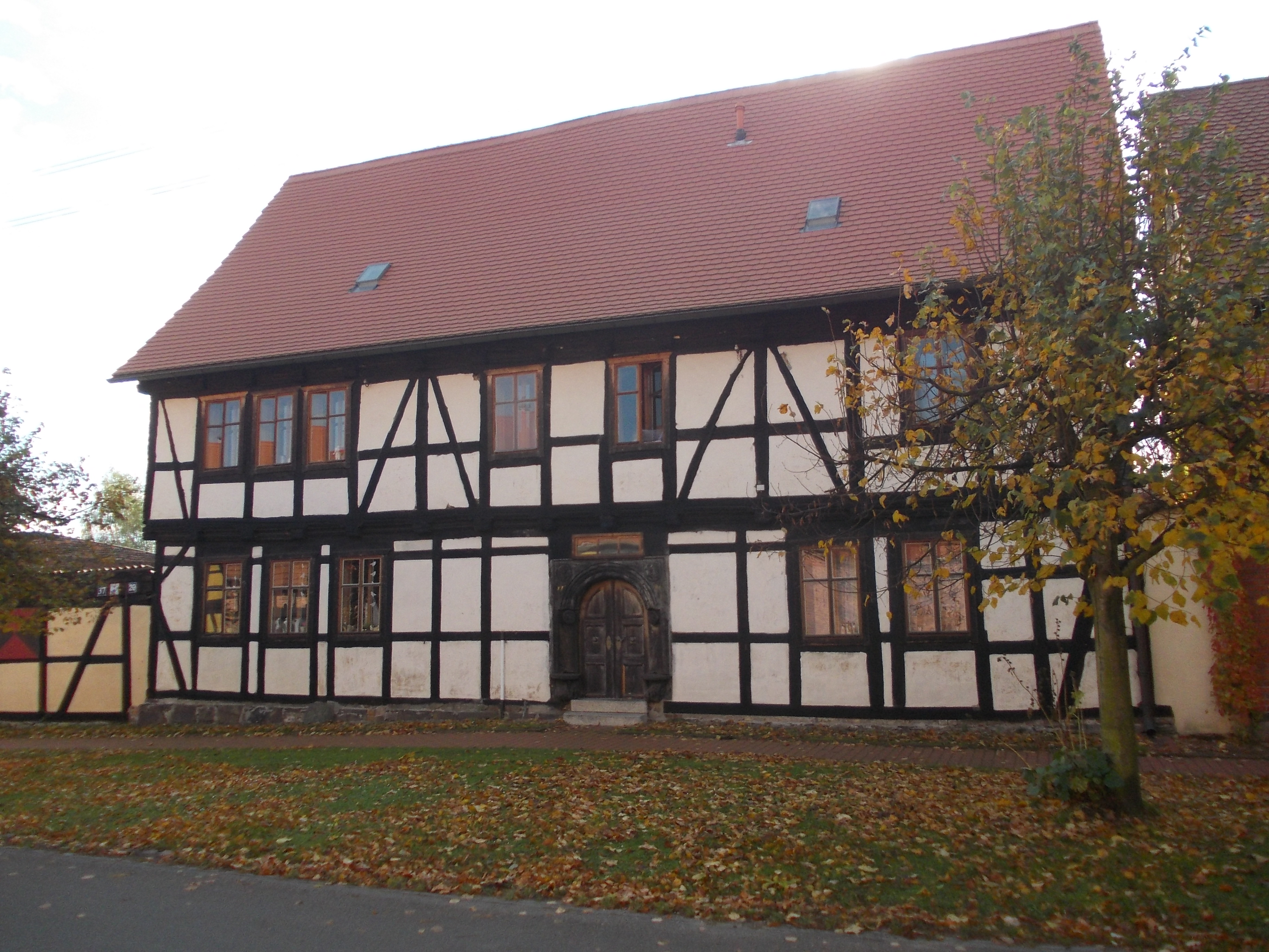 Half-timbered house in Griesen (Oranienbaum-Wörlitz, Wittenberg district, Saxony-Anhalt)